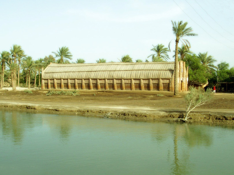 naserya